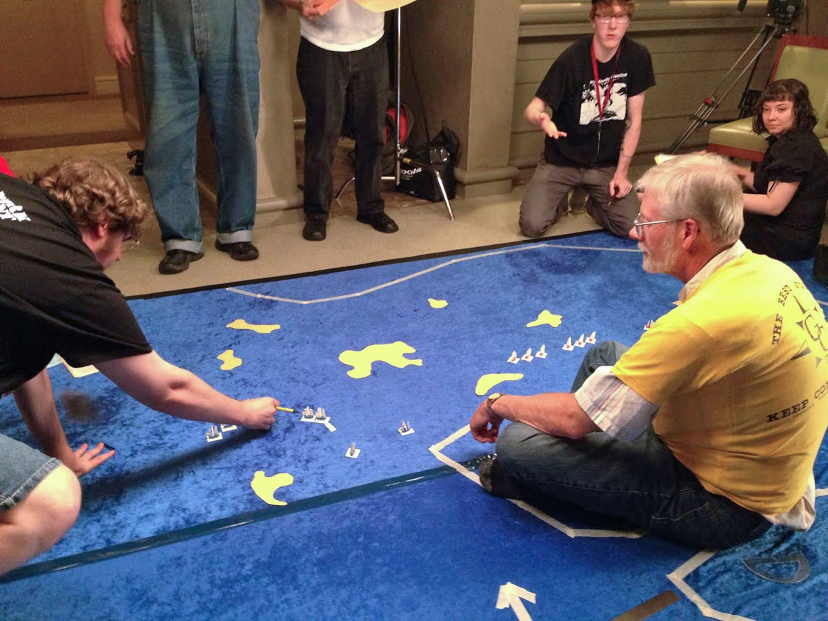 This shows Mike Carr (in yellow) running the naval miniature wargame Don't Give Up the Ship at Gen Con in 2013.